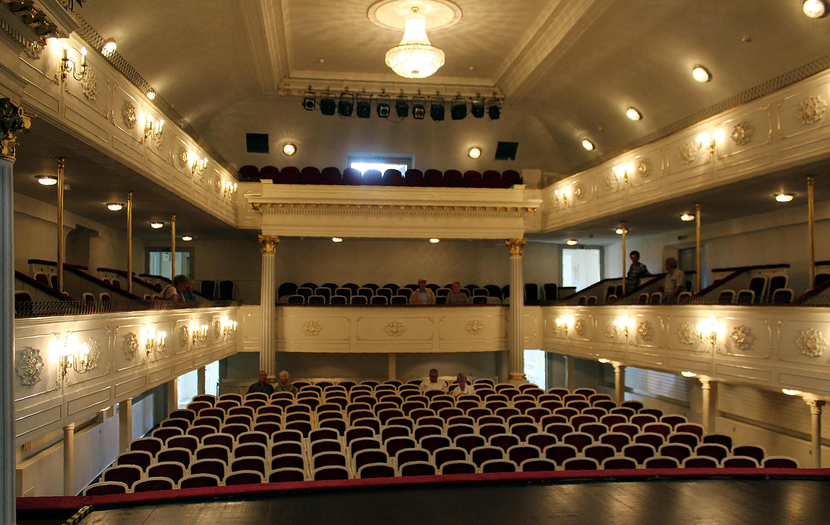 Ballenstedt, the theatre of the castle, inner view